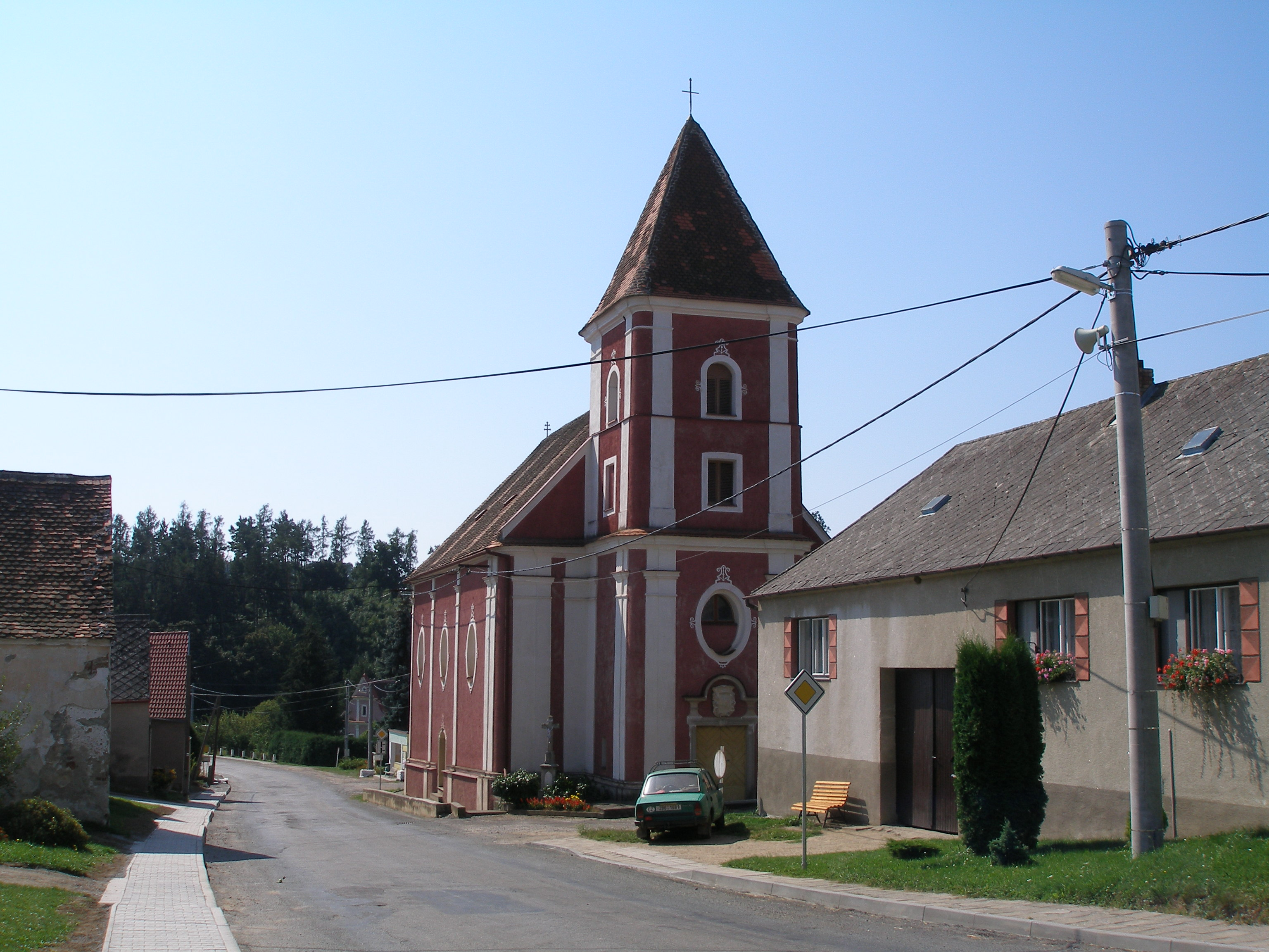 Lubnice (Znojmo District) - the Northern view of the church of Saint George